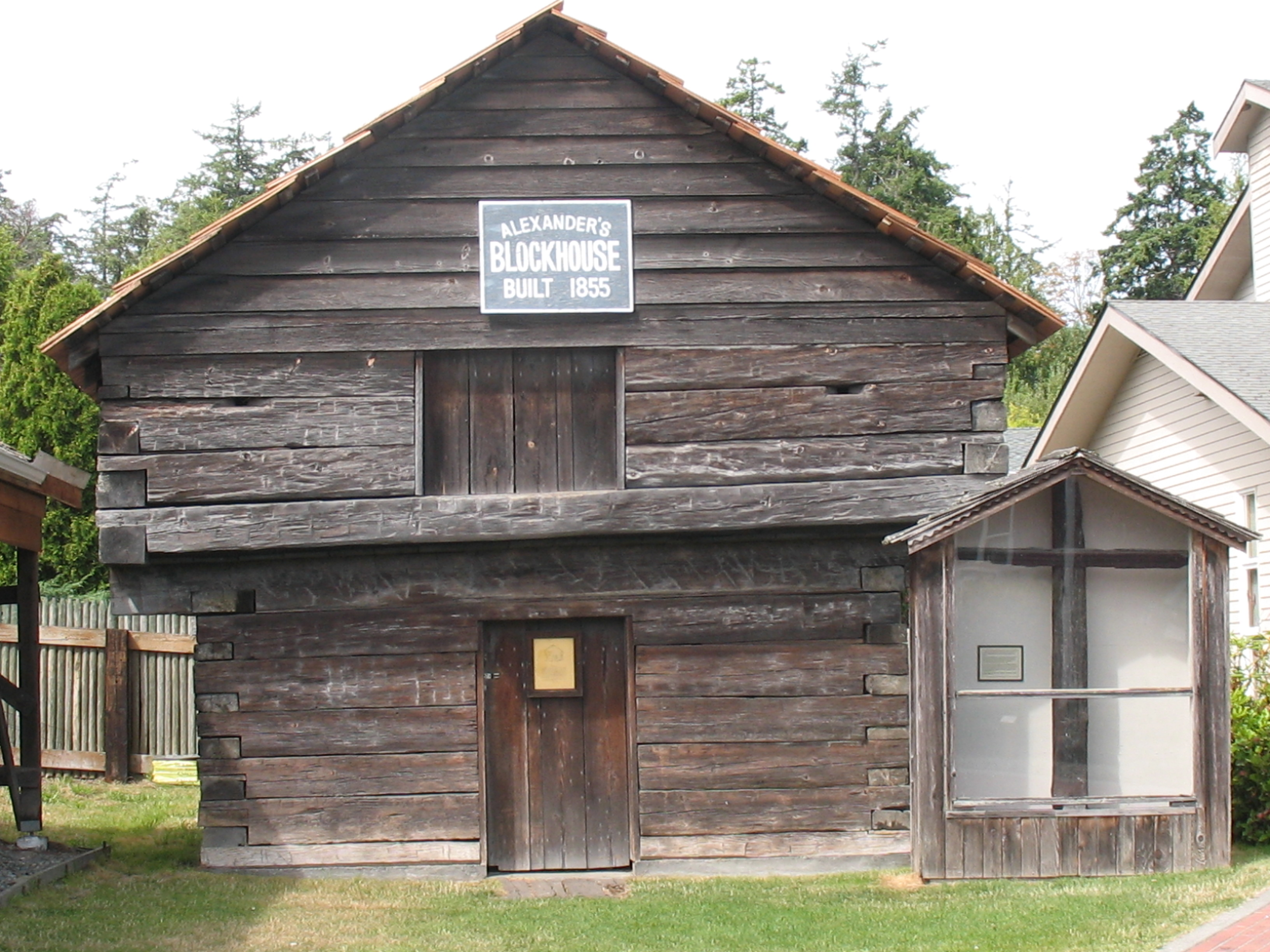 Alexander's Block House in Coupeville, Whidbey Island, built in 1855. Coupeville falls entirely within the Central Whidbey Island Historic District, part of the Ebey's Landing National Historical Reserve.